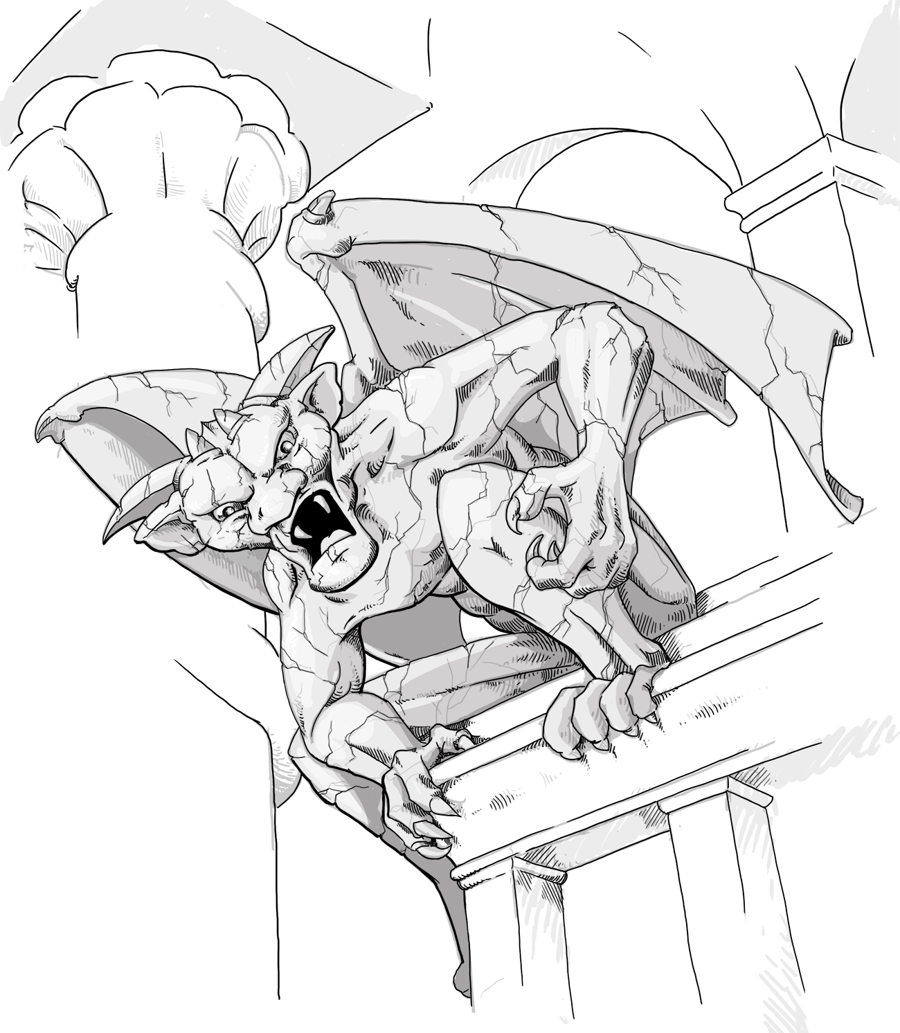 In the Dungeons & Dragons fantasy role-playing game, a gargoyle is a grotesque winged monstrous humanoid creature, with a horned head and a stony hide.